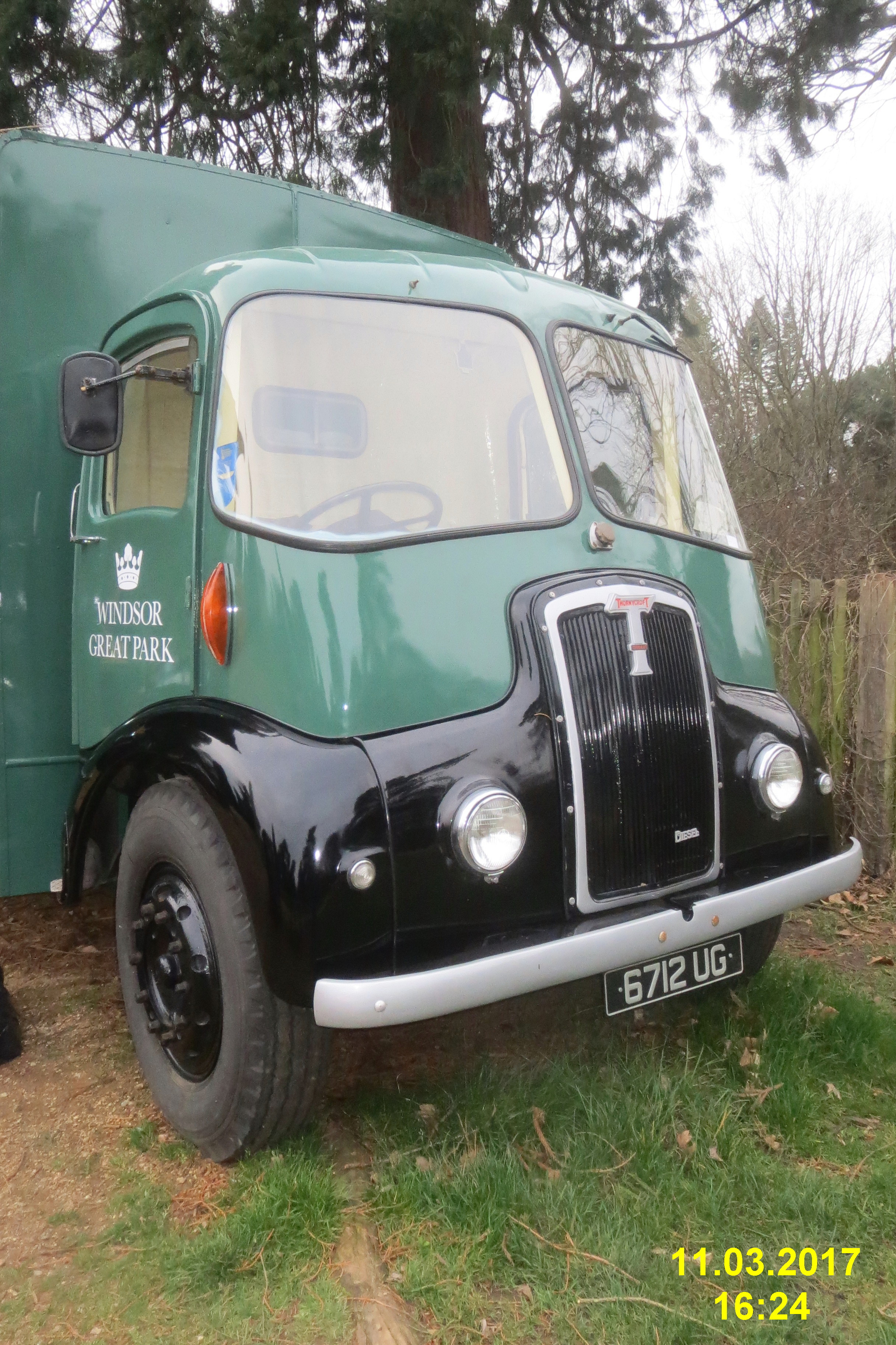 1960 Thornycroft Trident